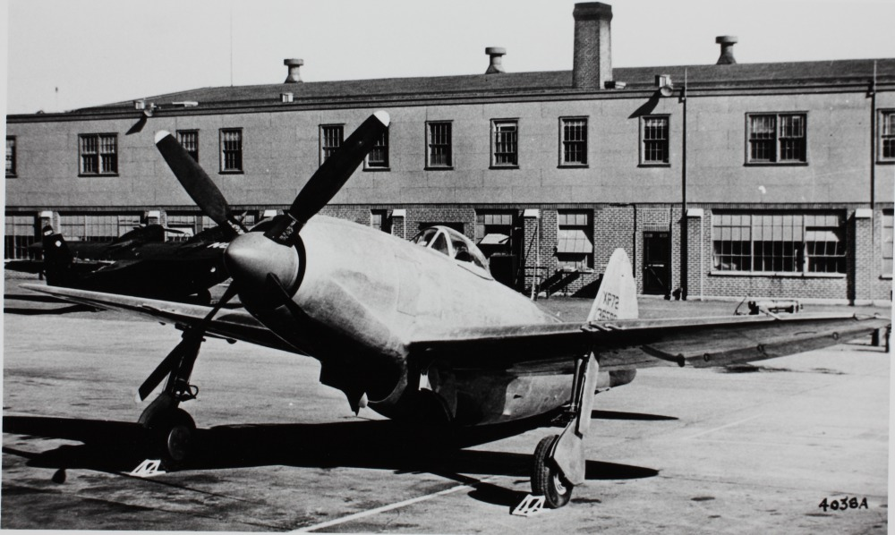 PictionID:42002461 - Title:Republic XP-72 XP-72, 43-36598. the XP-72 flew for the first time on 2 February 1944, equipped with a four-bladed propeller. The XP-72 Wasp Major-powered Super Thunderbolt would have been an exceptional fighter, but favorable events for the Allies in World War II stopped its promising development. - Catalog:15_002991 - - Image from the Charles Daniel's Collection Seversky, Republic and P-47 Aircraft Album.Repository: San Diego Air and Space Museum Archive